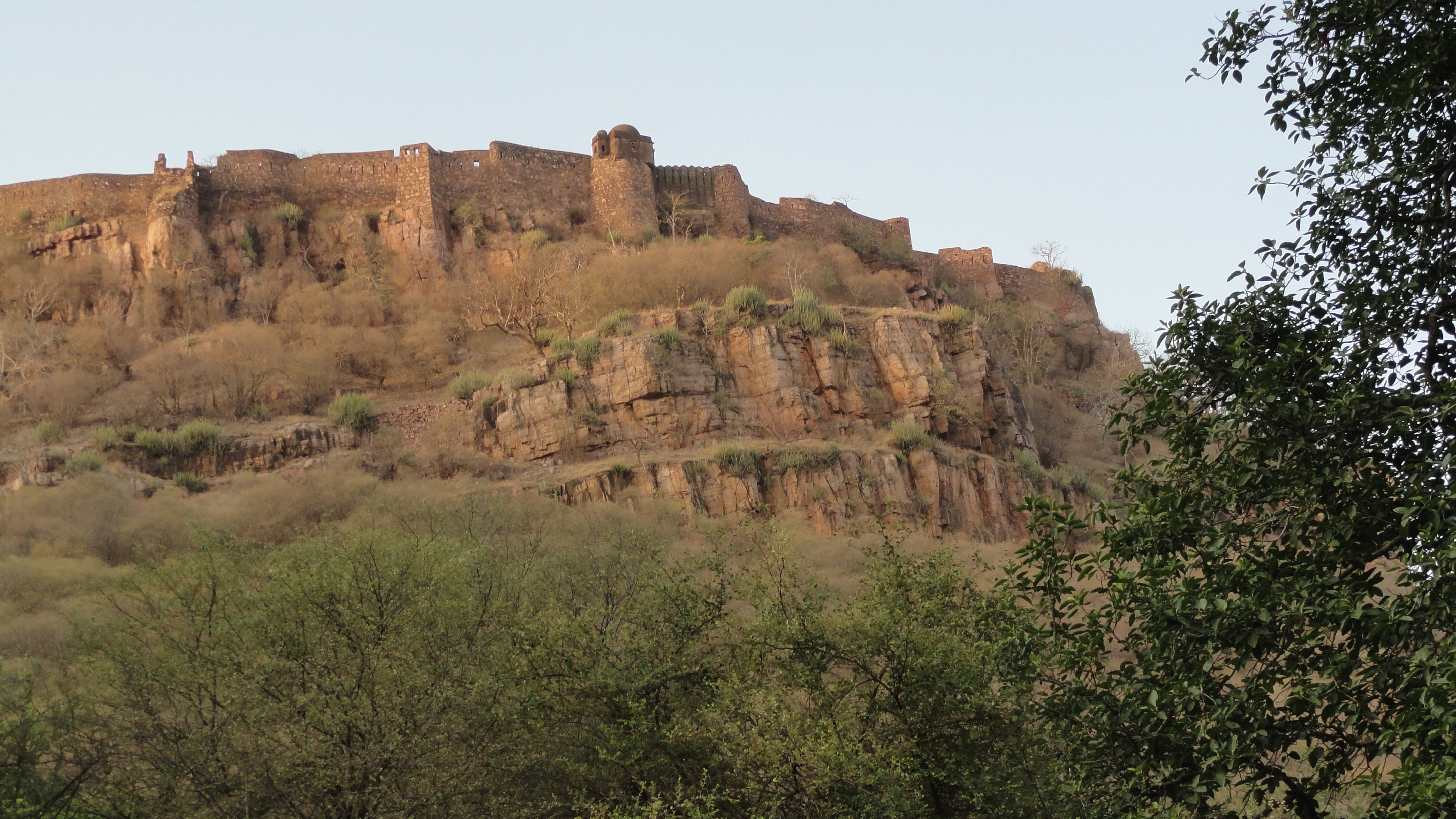 Fort of Ranthambore as visible from Ranthambore National Park